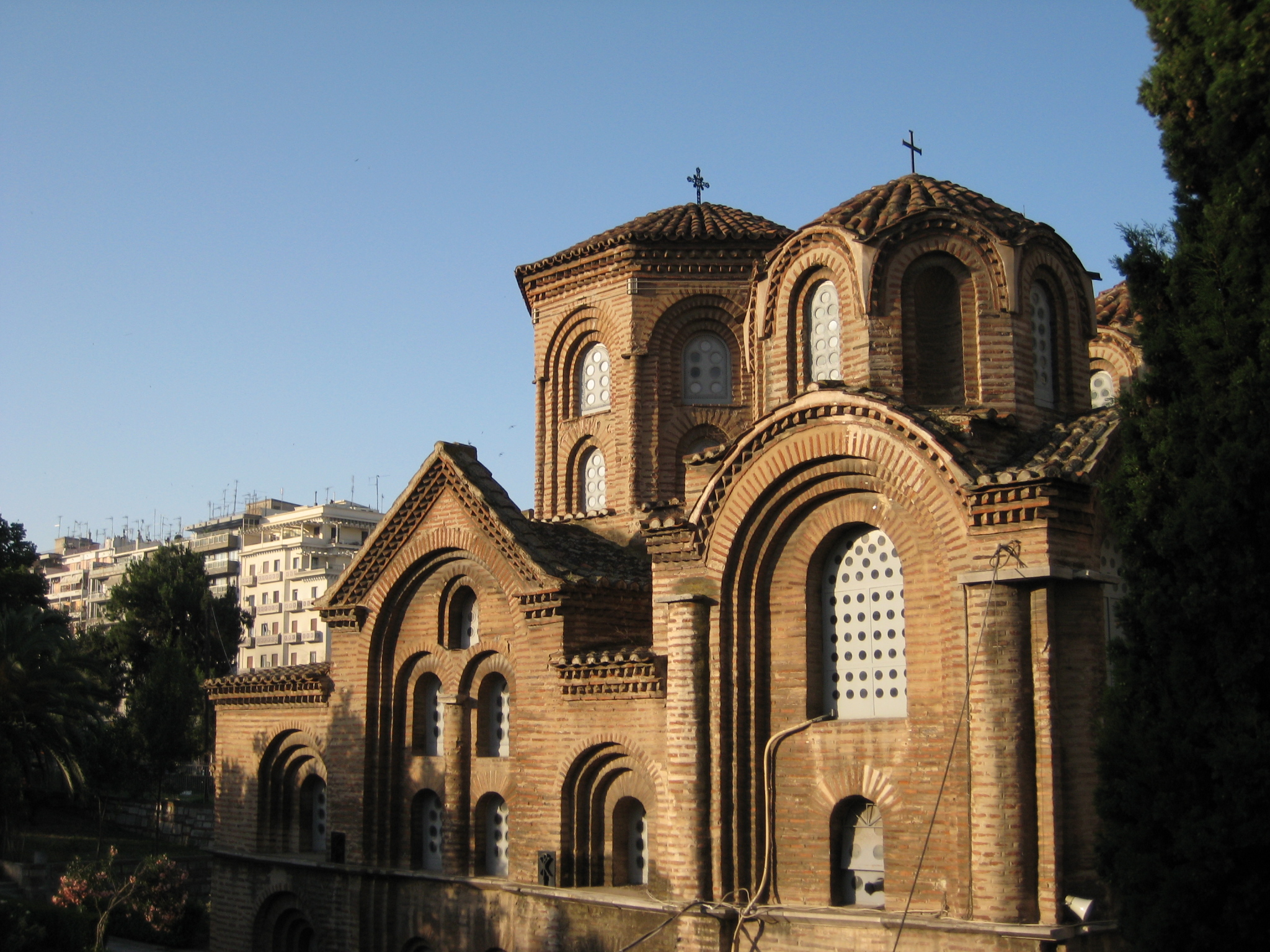 Panagia Chalkeon, Thessaloniki (Greece)